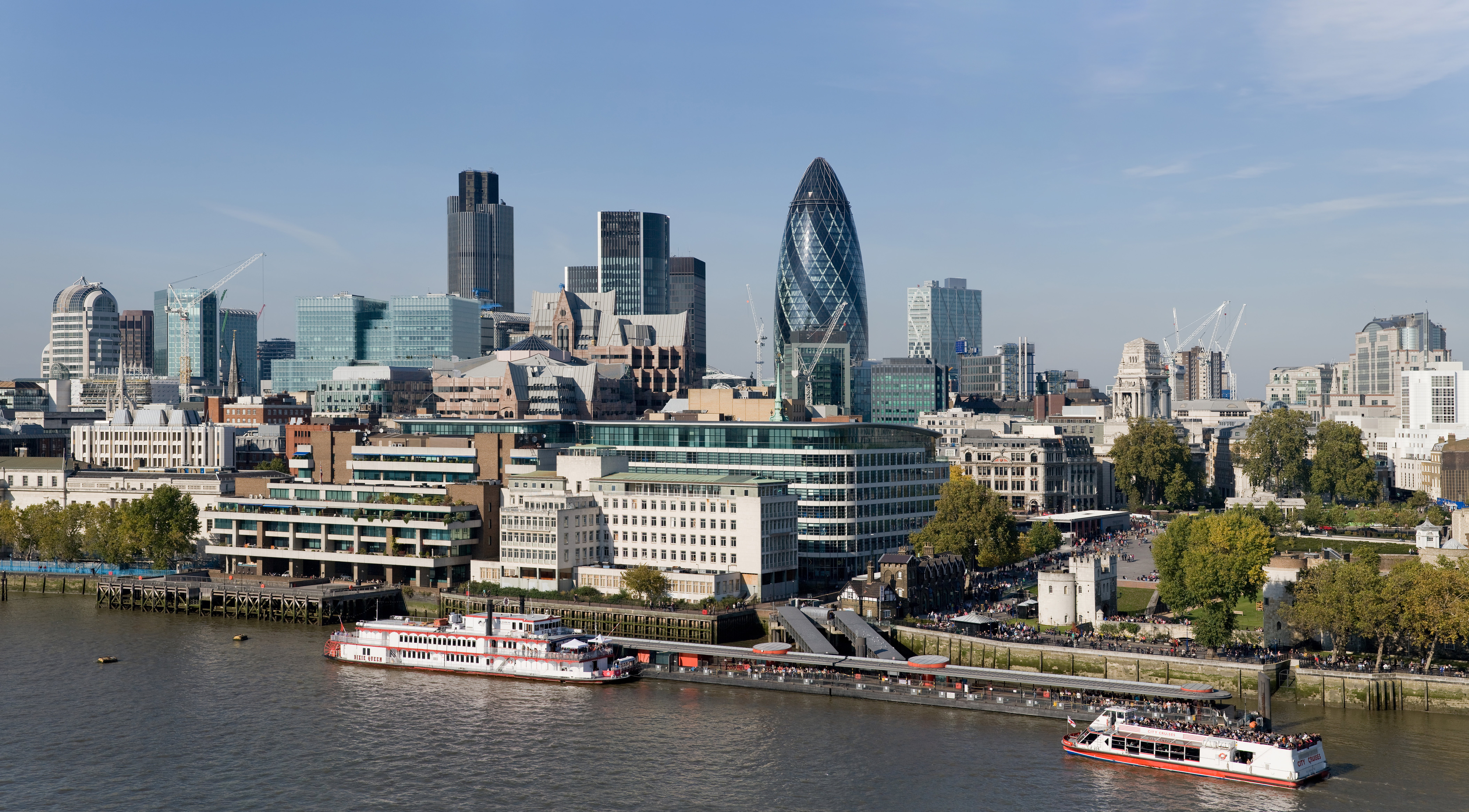 The City of London skyline as viewed toward the north-west from the top floor viewing platform of London City Hall on the southern side of the Thames. In the foreground: Dixie Queen and Millennium Time at Tower Millennium Pier. This is a 5 segment panoramic image taken by myself with a Canon 5D and 24-105mm f/4L IS lens.